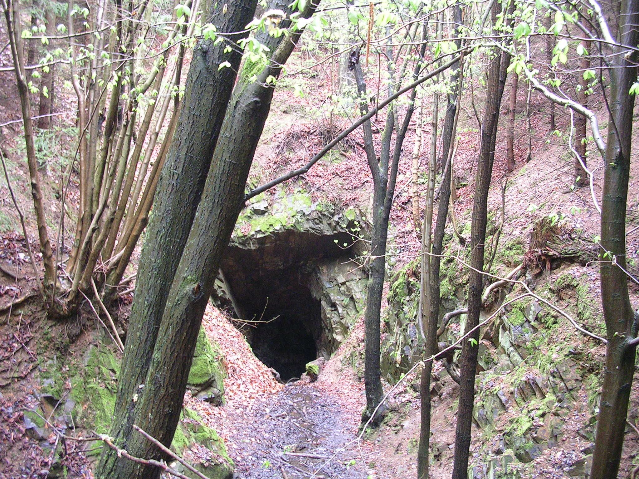 Klínec, Central Bohemian Region, the Czech Republic. Water tunnel.